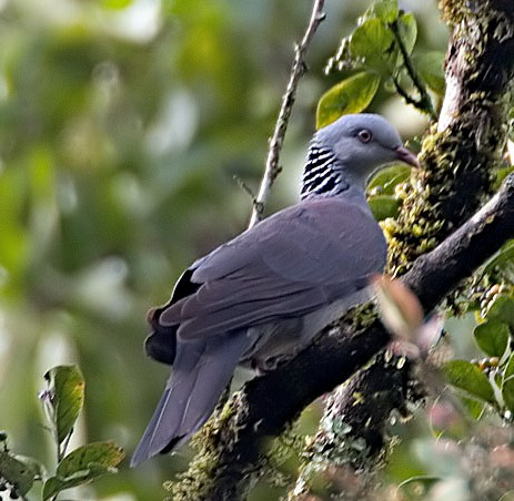 Nilgiri Woodpigeon Columba elphinstonii, The Nilgiris, India